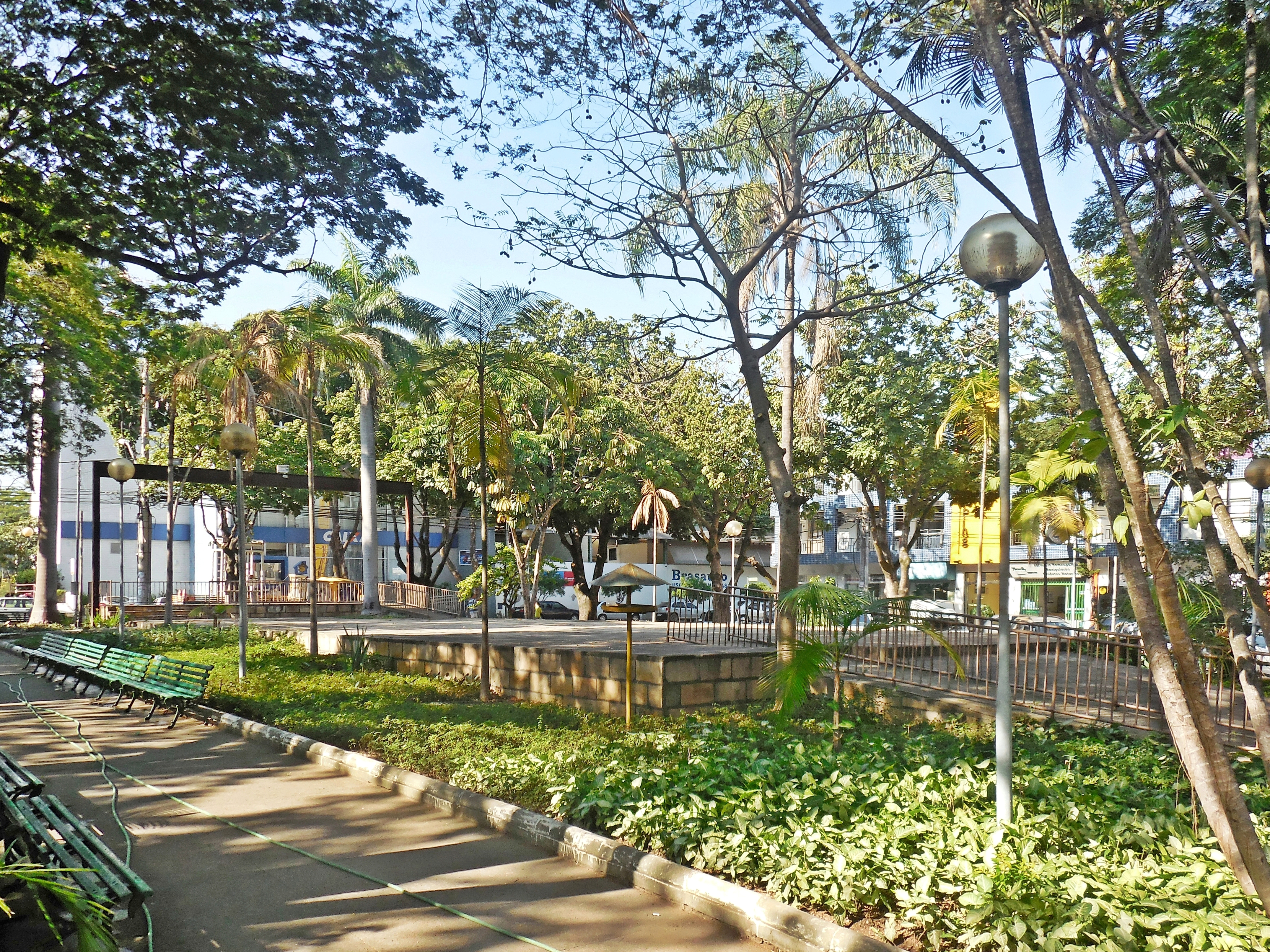 View of the Engenheiro Carlos Jacinto Prates square in the Horto neighborhood, in Ipatinga, Minas Gerais, Brazil.